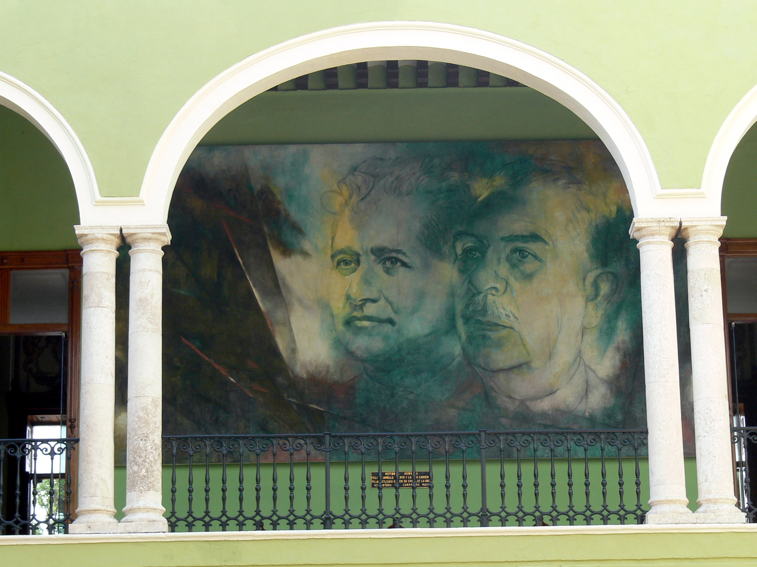 Merida - Palacio de Gobierno - Murals by Fernando Castro Pacheco: Representatives of land reform.